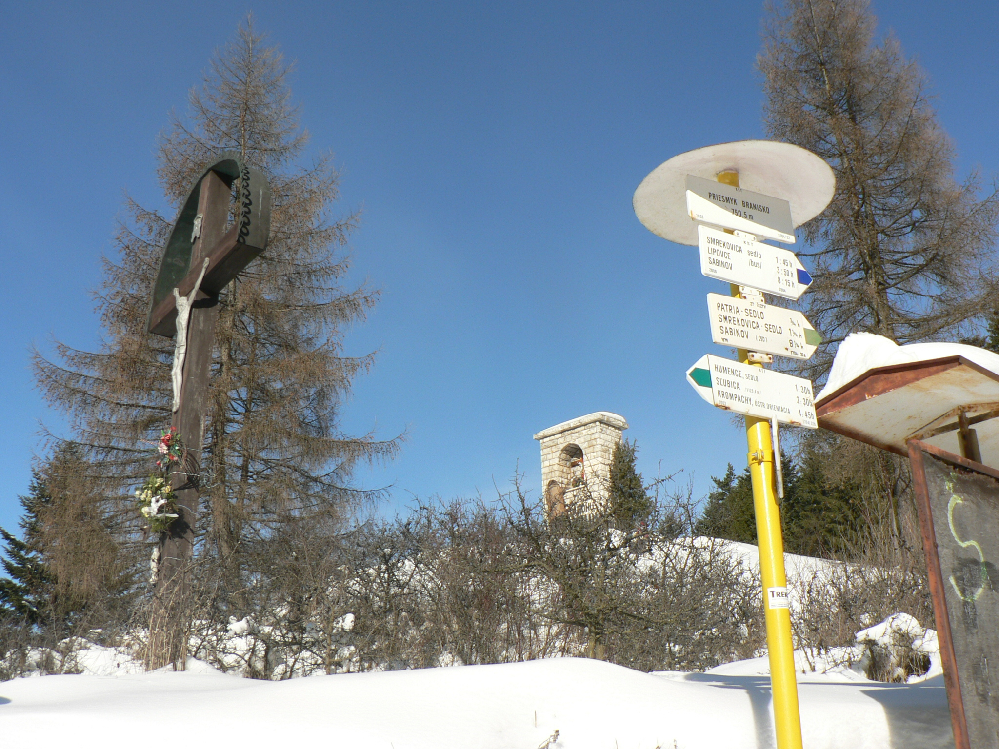 The Branisko-pass on the famous day of 5th February